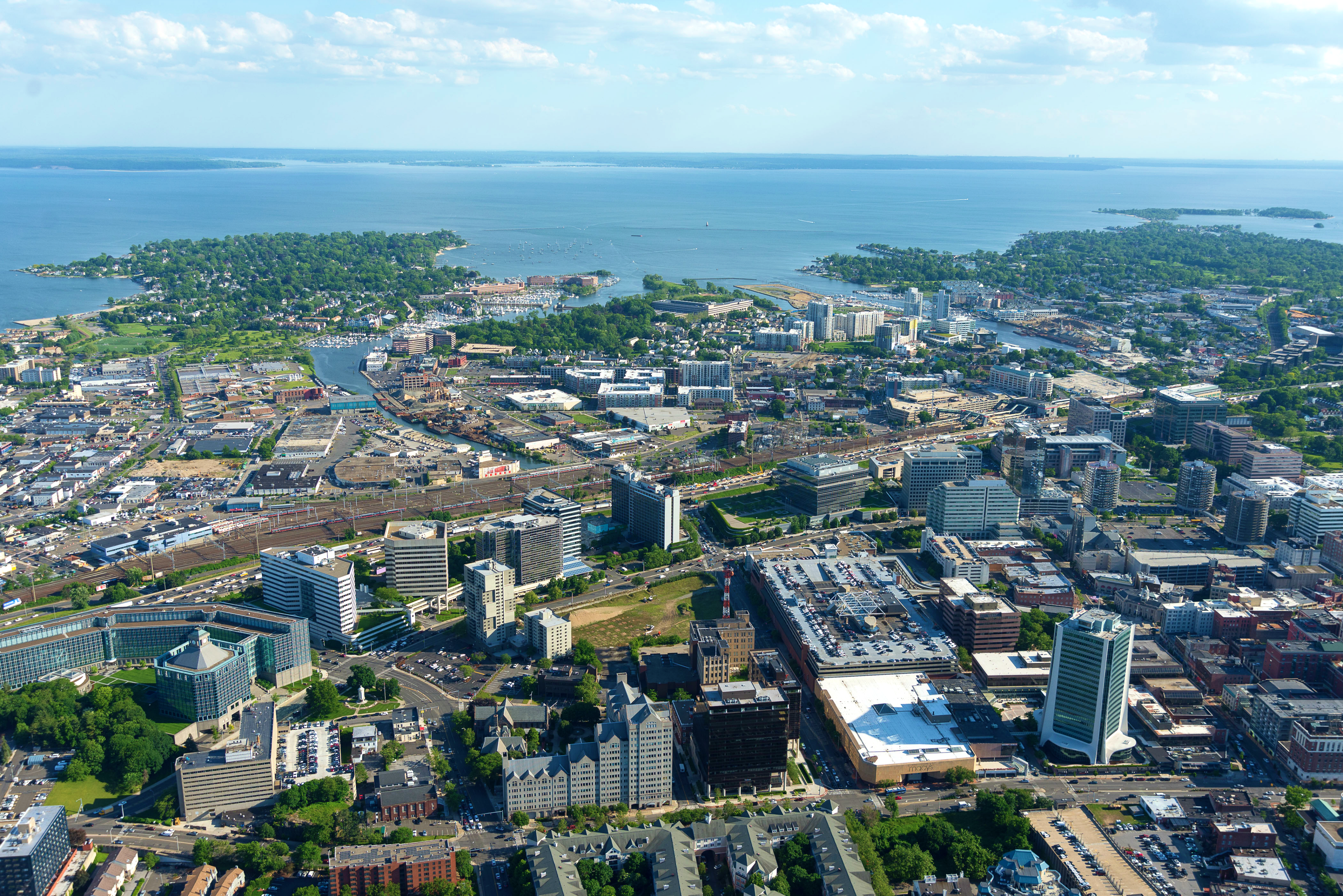 Aerial drone shot of the Stamford skyline in Downtown and South End neighbrohoods of Stamford, Connecticut with Long Island in the distance.